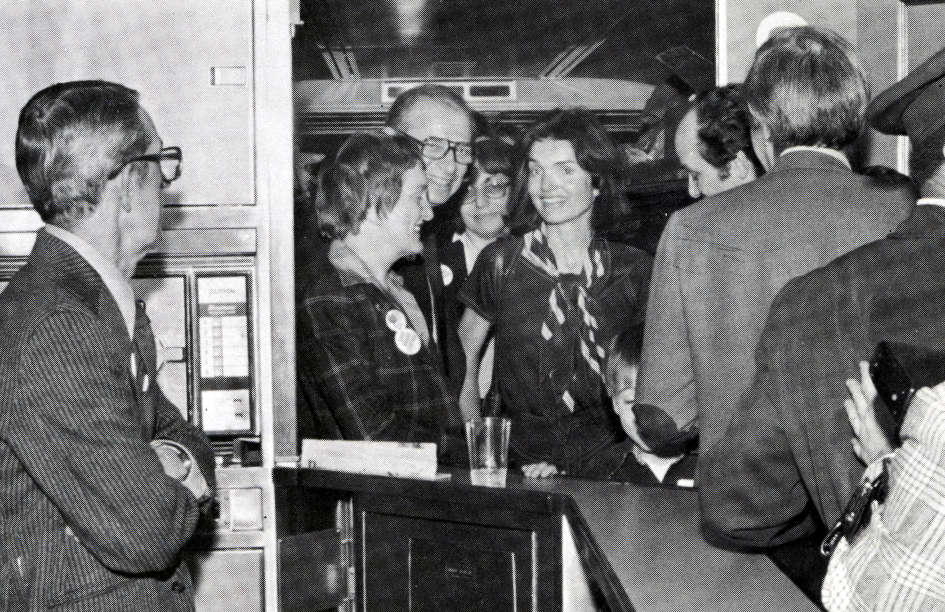 Jacqueline Kennedy Onassis (center) on board the Landmark Express, a special charter train by the Committee To Save Grand Central Terminal in April 1978. The group chartered the train to Washington DC for the day before oral arguments in Penn Central Transportation Co. v. New York City, which would determine the fate of Grand Central Terminal.